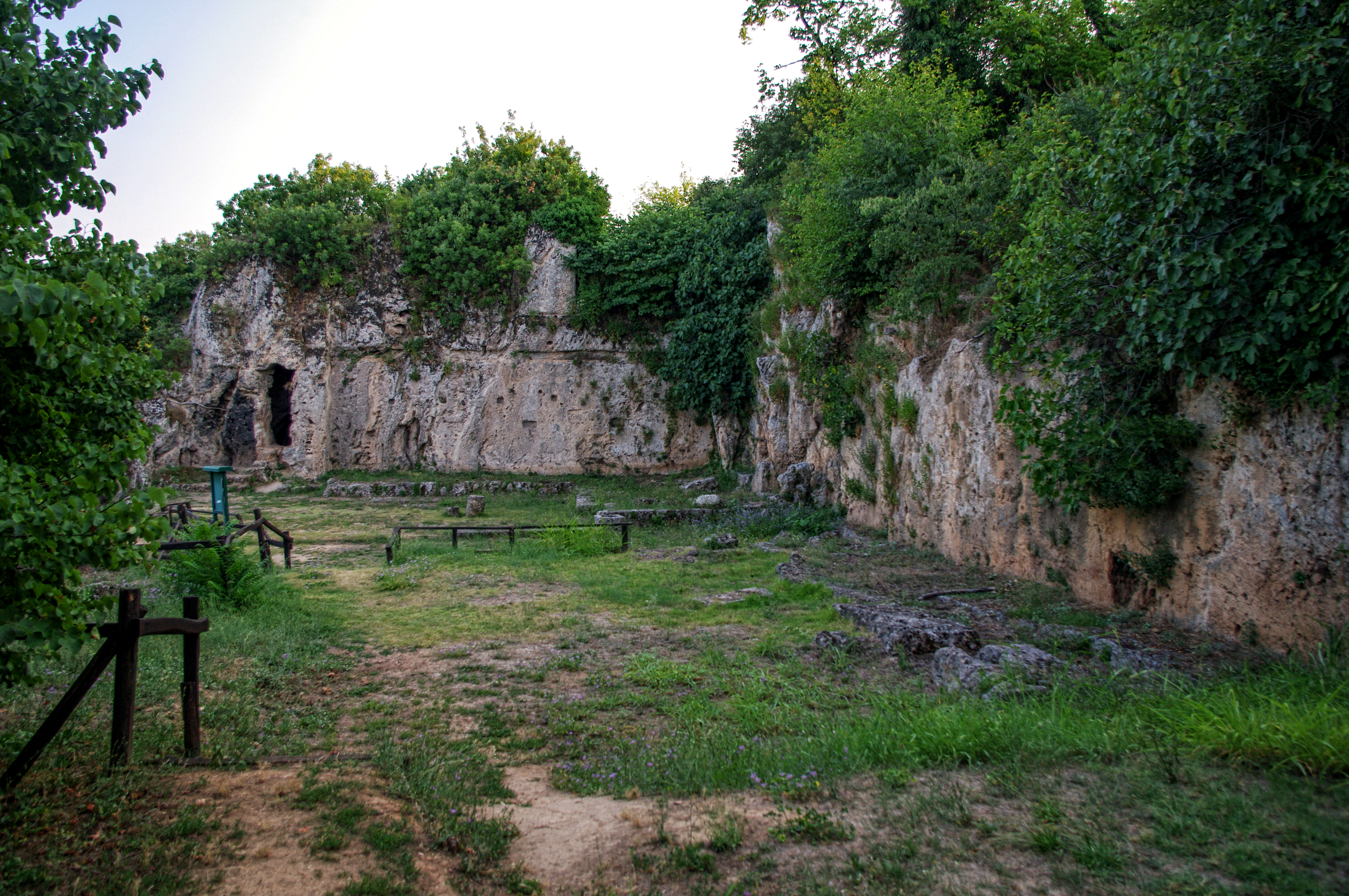 School of Aristotle at the Nymphaion of Mieza«Νυμφαίο - Σχολή Αριστοτέλους»